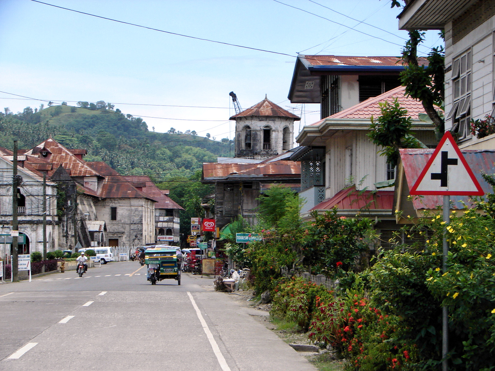 Poblacion, Loboc, Bohol, the Philippines